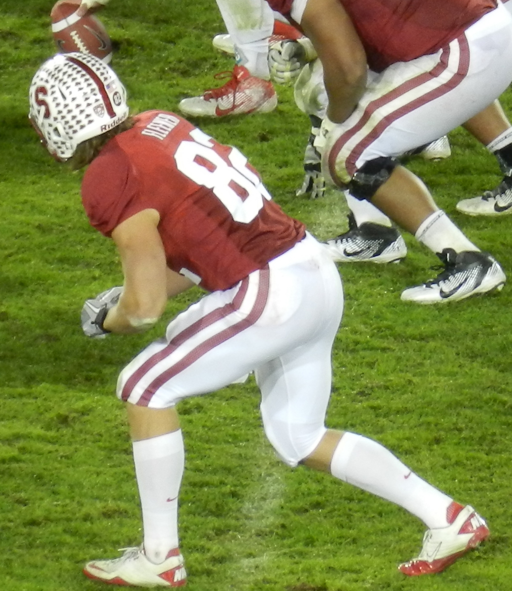 Andrew Luck lines up to take a snap, 2011.